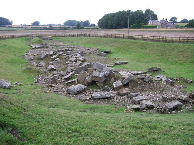 Source description says: "Roman Bridge : Piercebridge On the south bank of the River Tees, an excavated site with the remains of abutments and piers. On the course of Dere Street Roman road." View across Tees from Cliffe, Richmondshire. This bridge was once part of the Roman road Dere Street, which is now diverted.